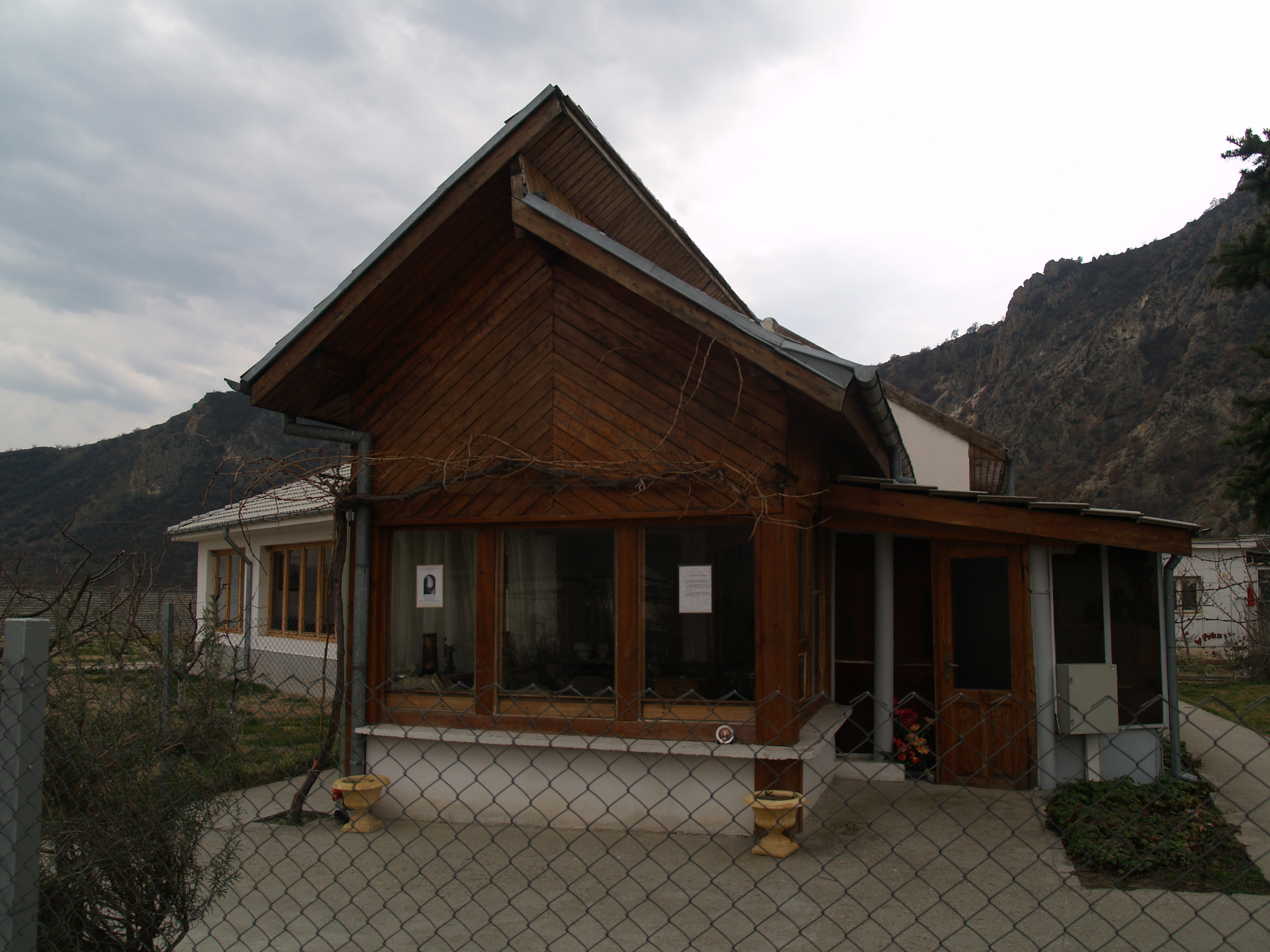 Vanga's last house in Rupite village, Petrich Municipality